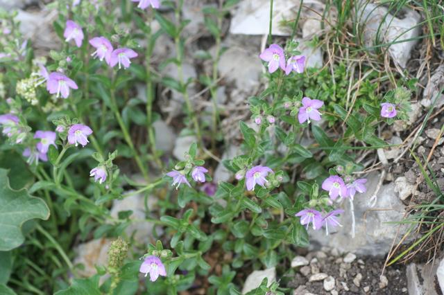 Veronica fruticulosa